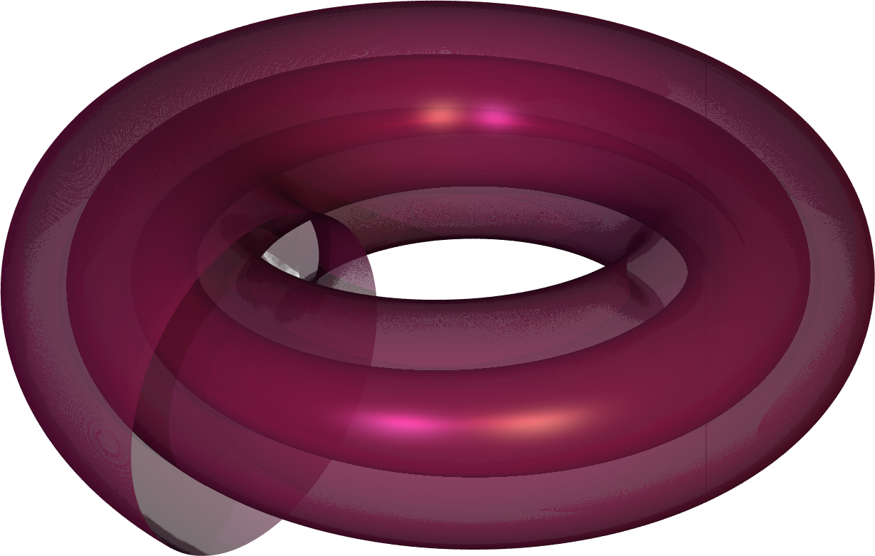 mathematical ouroboros: A toroid with increasing diameter of r_i